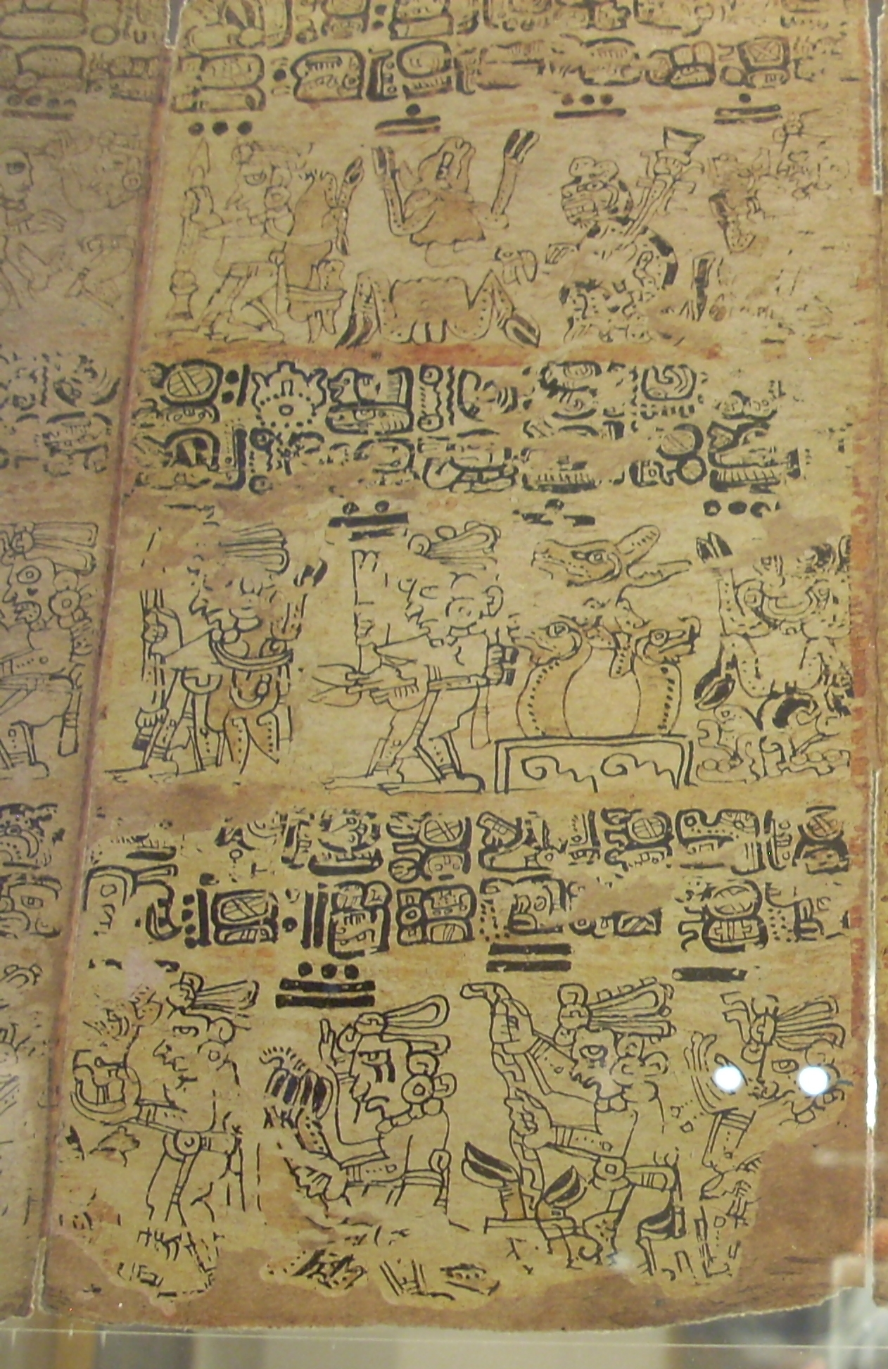 Madrid Codex (replica) in the Museum of the Americas, Madrid. Late Postclassic Maya book.